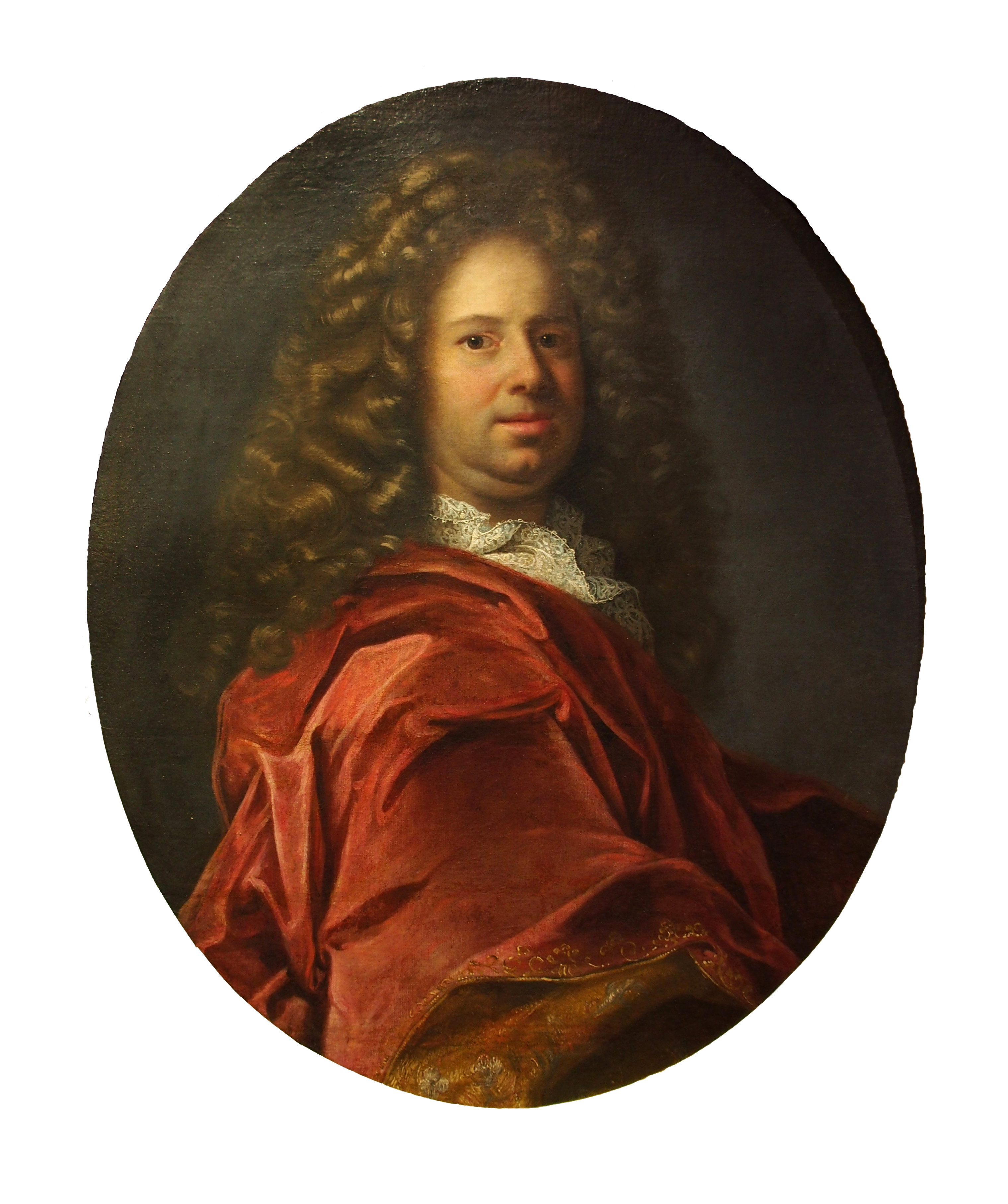 Francesco Maria Capellini von Wickenberg, called Stechinelli